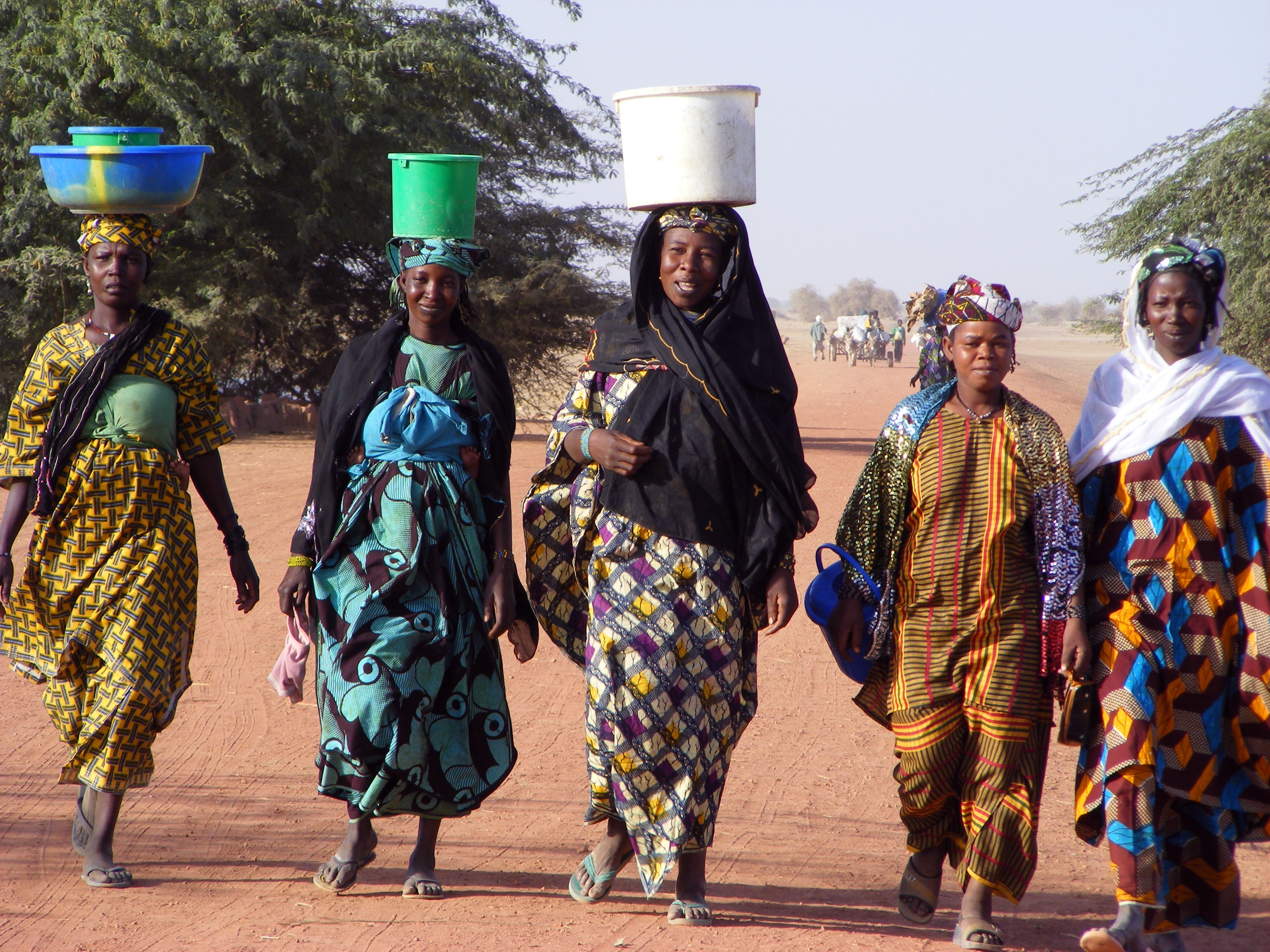 This is an image with the theme "Africa on the Move or Transport" from: Mali